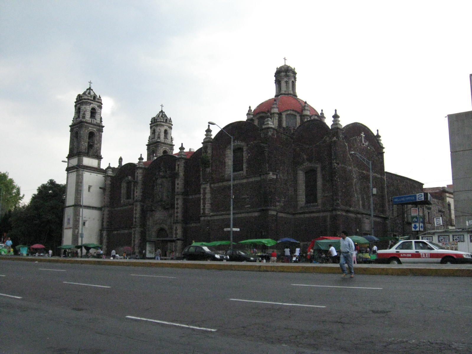 The Parish of Santa Vera Cruz church, located on Hidalgo Street just north of the Palace of Fine Artes (Bellas Artes) in Mexico City